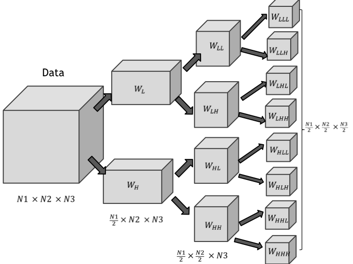 Separable DWT for 3D